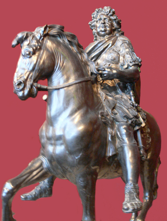 Johann Jacobi: Equestrian statue of the "Great Elector" (Frederick William, elector of Brandenburg); bronze, Berlin 1712 (model of the equestrian statue designed by Andreas Schlüter at the Lange Brücke bridge near the Berlin Stadtschloss palace). Skulpturensammlung (from the Royal „Kunstkammer“ collection, Inv. no. 534), Bode-Museum Berlin.